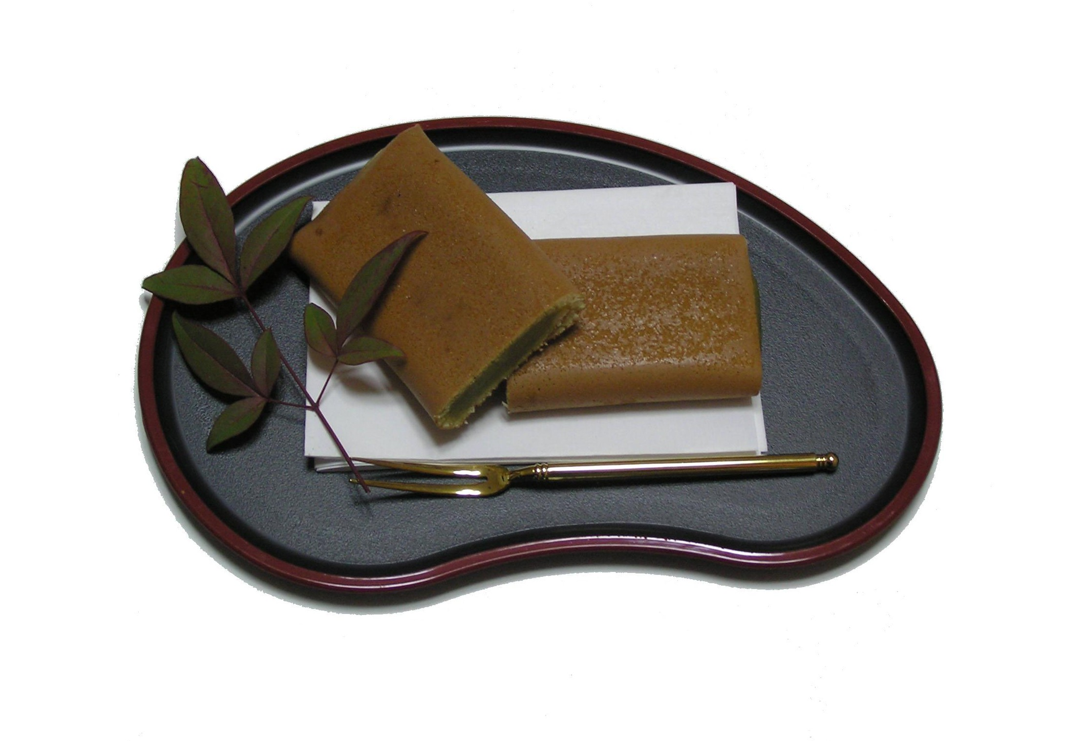 源氏巻 or Genjimaki a specialty of Tsuwano-cho, Shimane pref, Japan.